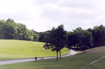 Stalybridge, England Cheetham's Park from the Park Street gate.